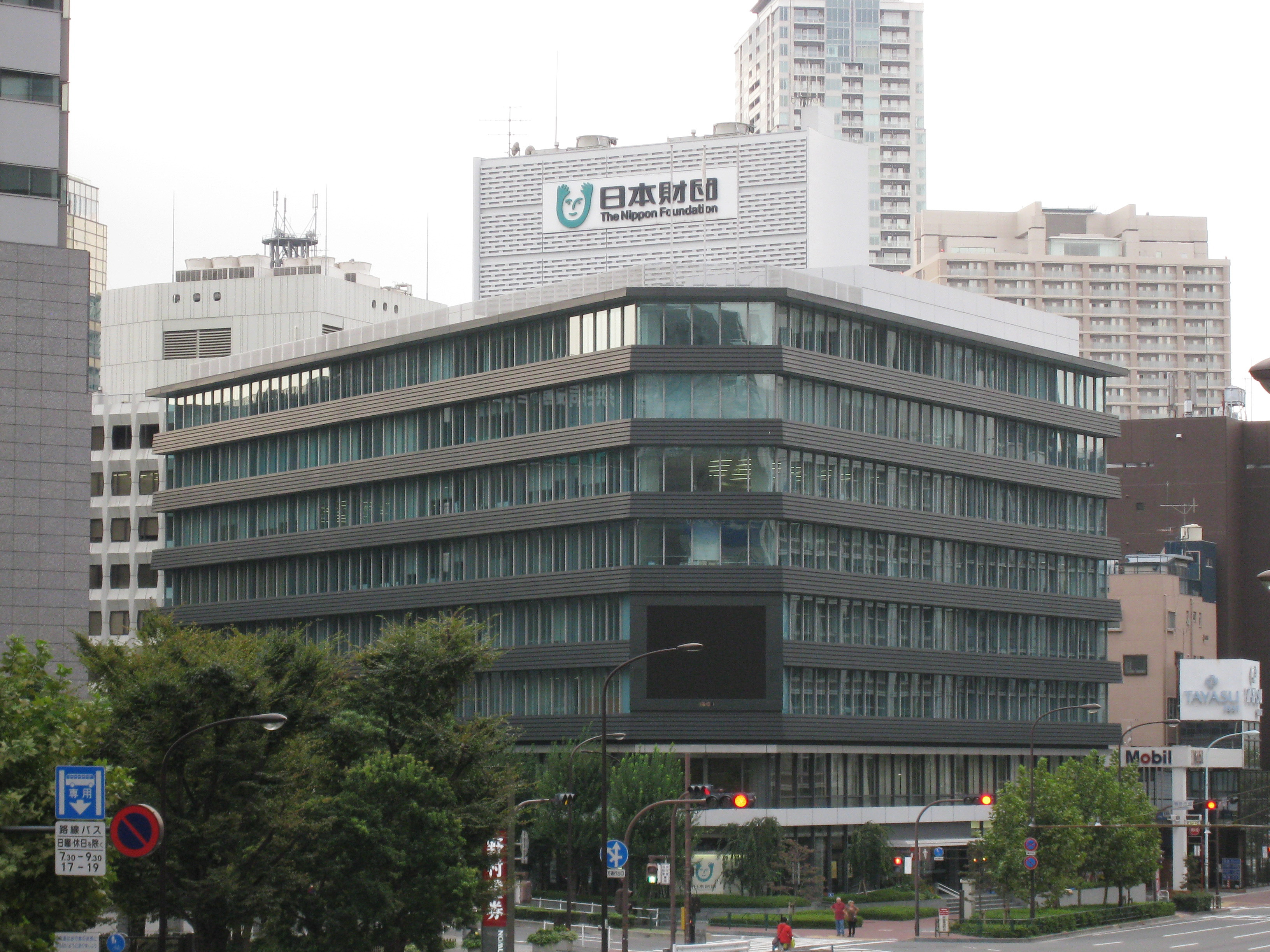 Nippon Foundation (日本船舶振興会 Nippon Senpaku Shinkōkai), located at Akasaka, Minato, Tokyo, Japan